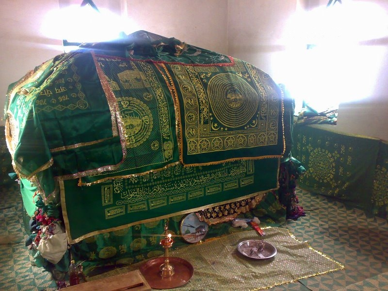 This is the Grave of Famous saint called PEER BABA near the Razdaan Pass.